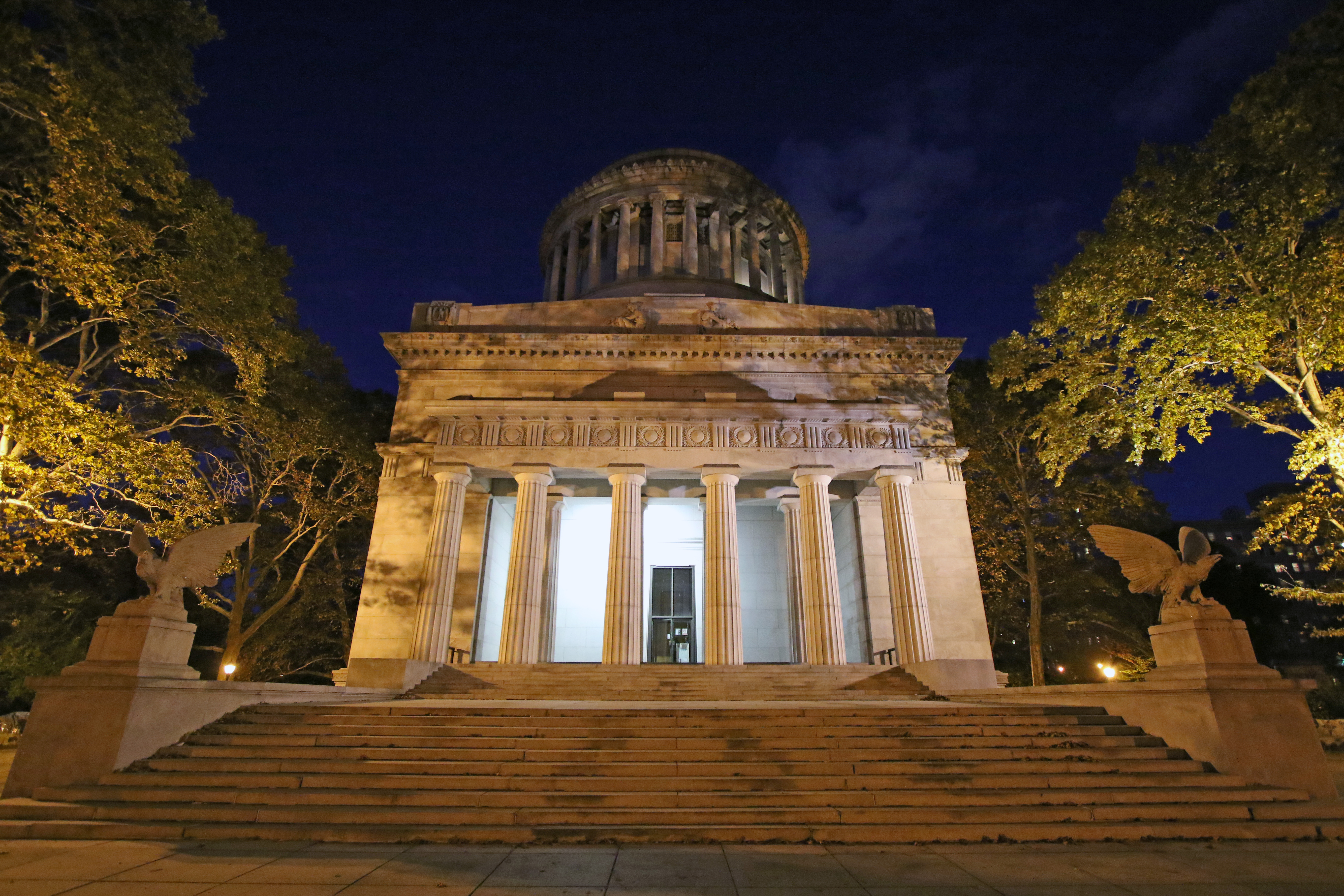 Exterior of General Grant's Tomb at night. Site: General Grant National Memorial